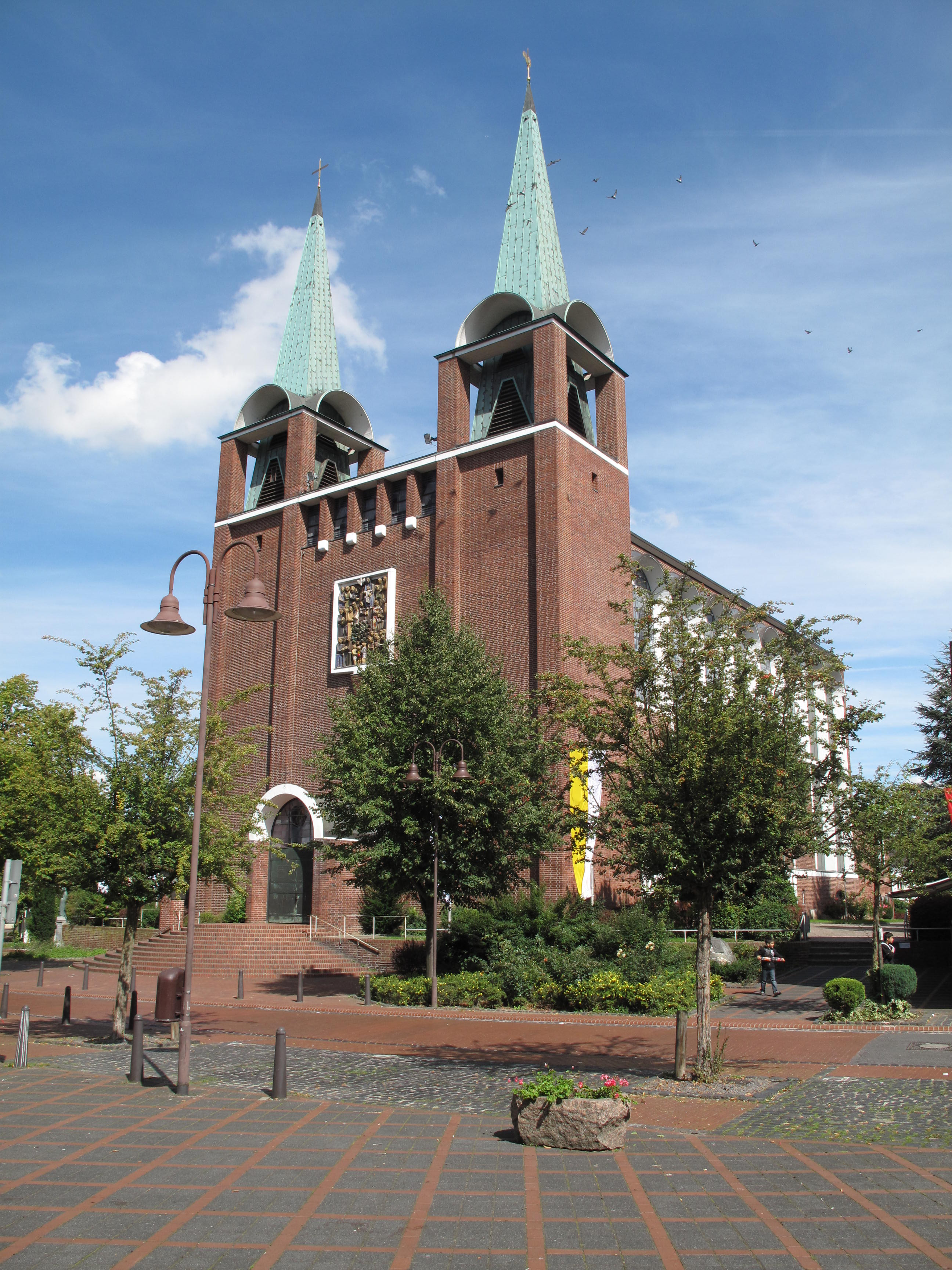 Aldenhoven, church